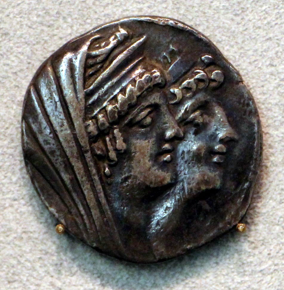 Ancient Greek coins in the Altes Museum Berlin